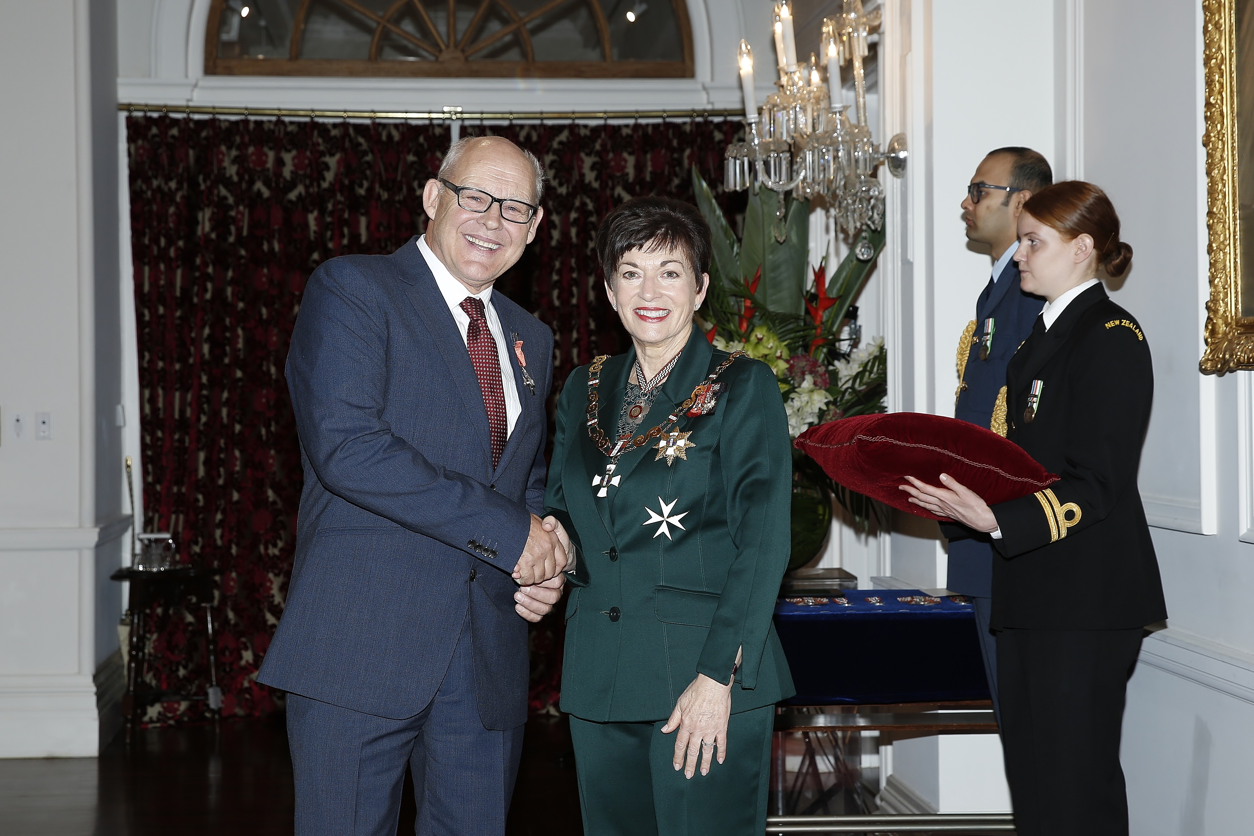 Ruud Kleinpaste, after his investiture as honorary MNZM, for services to entomology, conservation and entertainment, by the governor-general, Dame Patsy Reddy, on 14 May 2018